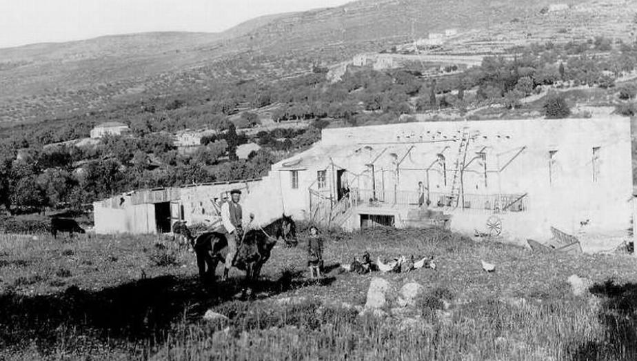 HaMoshava Motza. Farmer Broza, at whose house Herzl stayed during his Jerusalem visit in 1898, and planted a tree there. [ nentId=FHCL:3671688]